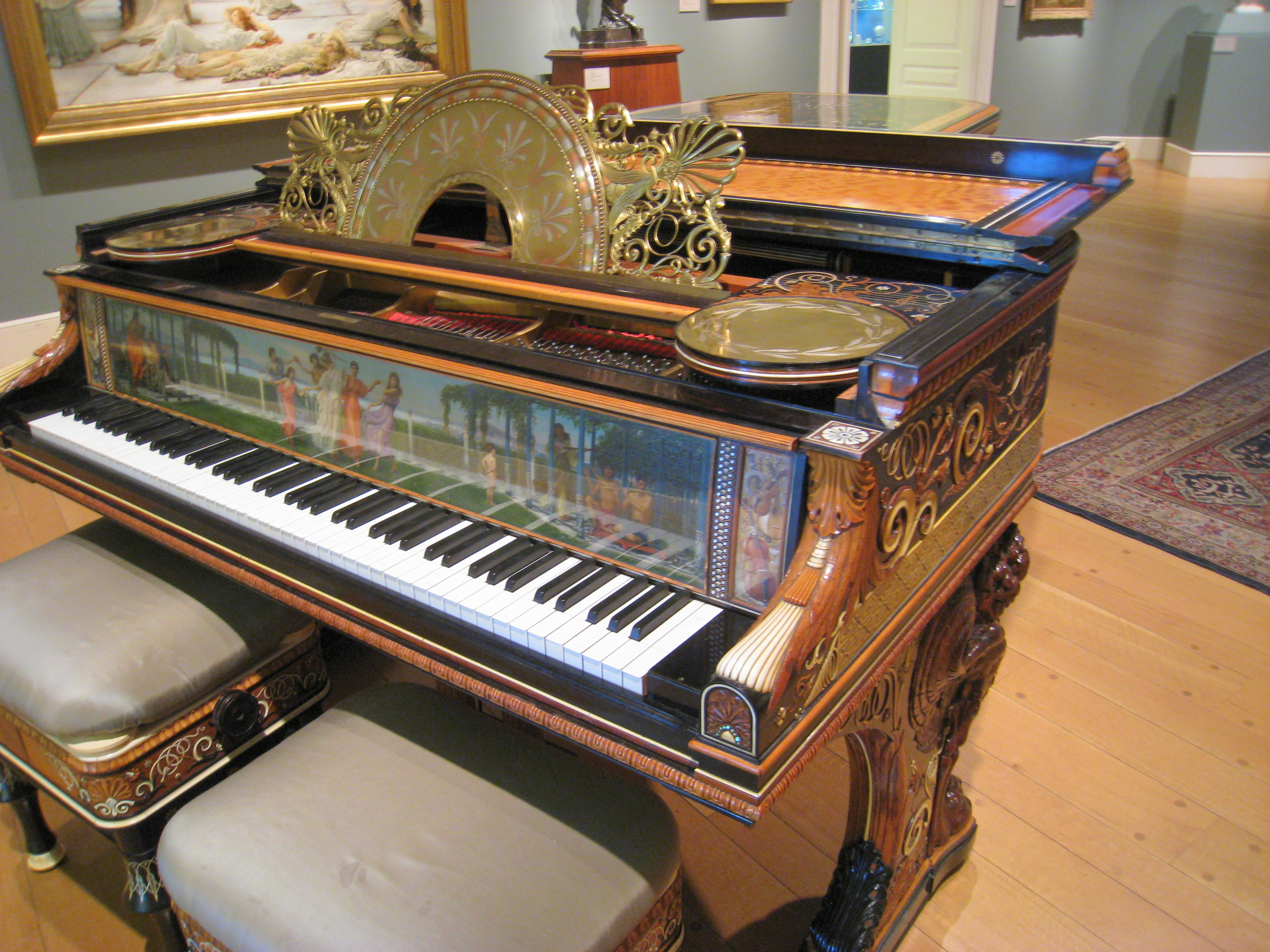 Alma-Tadema Steinway piano in the Clark Art Insitute, Williamstown, Massachusetts, USA.